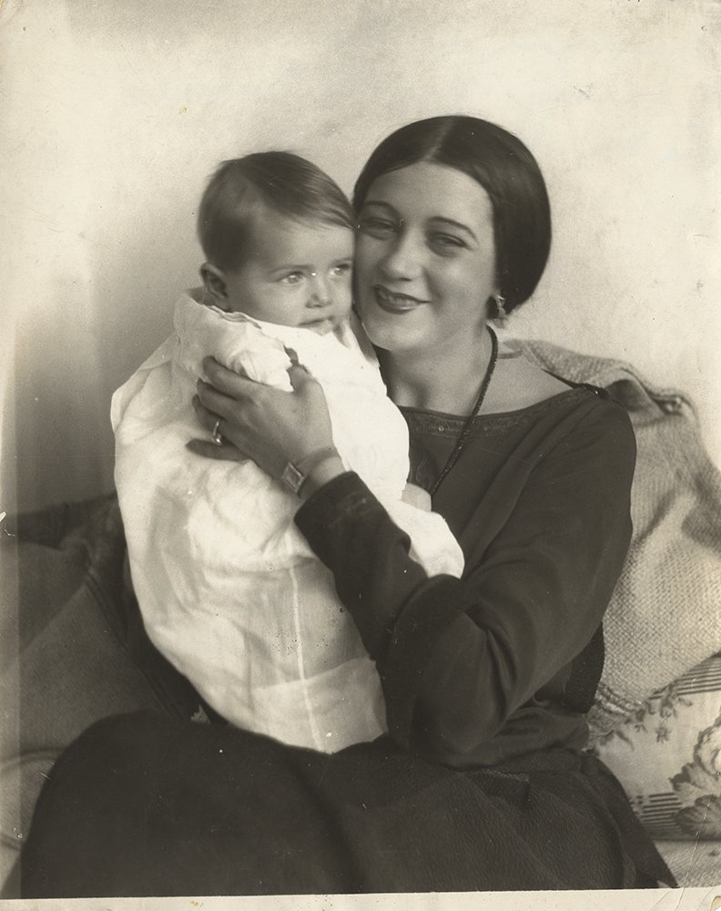 Barbara La Marr with son Melvin